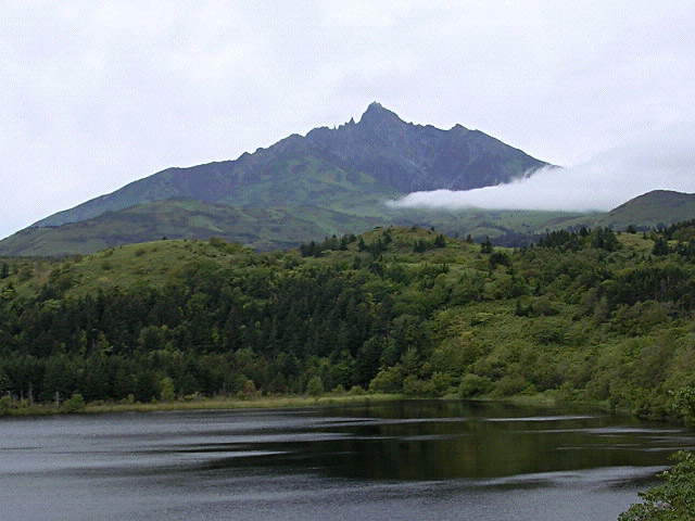 Mount Rishiri from Otatomari Pond in Rishiri Island, Hokkaido prefecture, Japan.